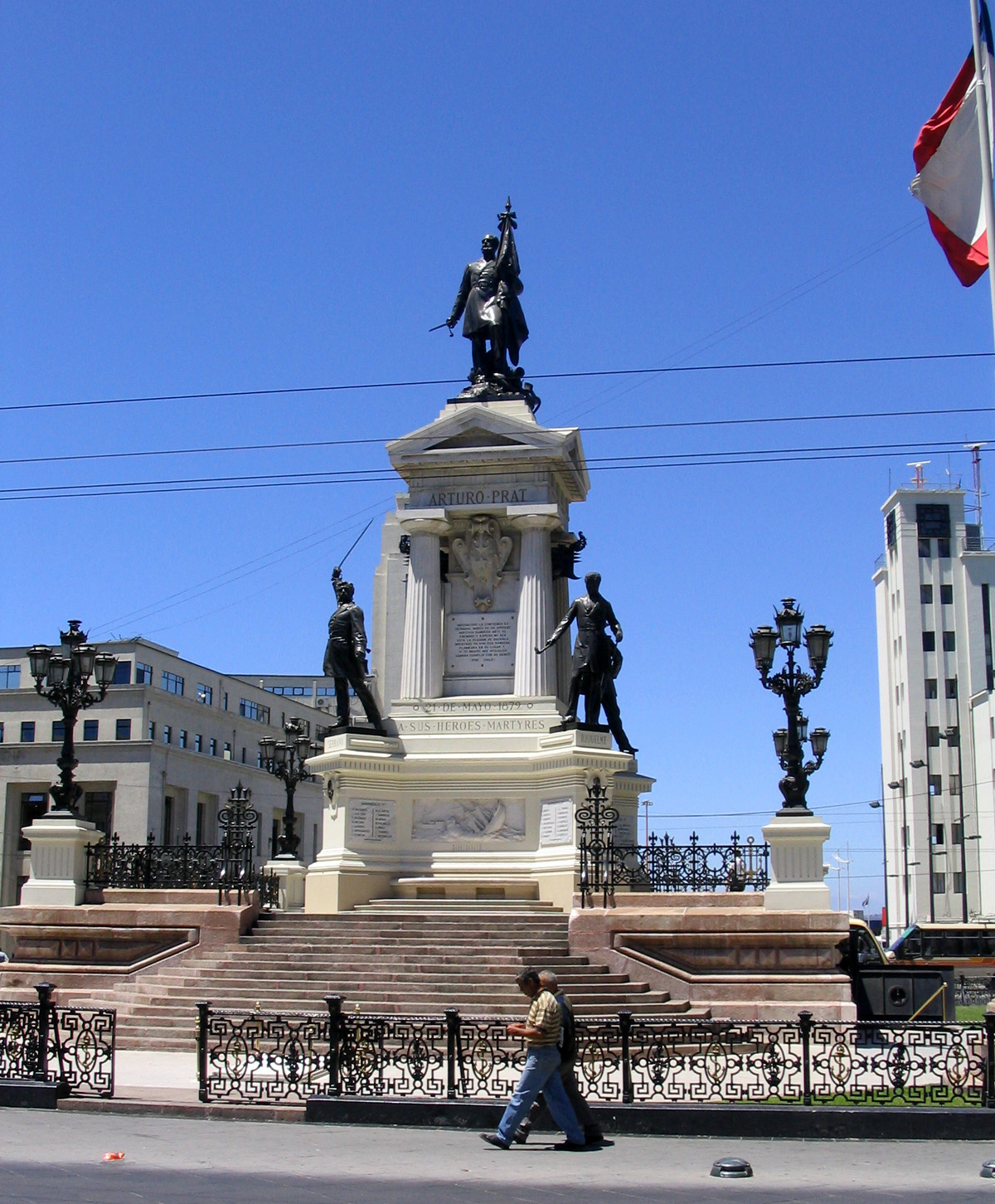 Valparaíso, Chile - Monumento a los Héroes de Iquique at Plaza Sotomayor